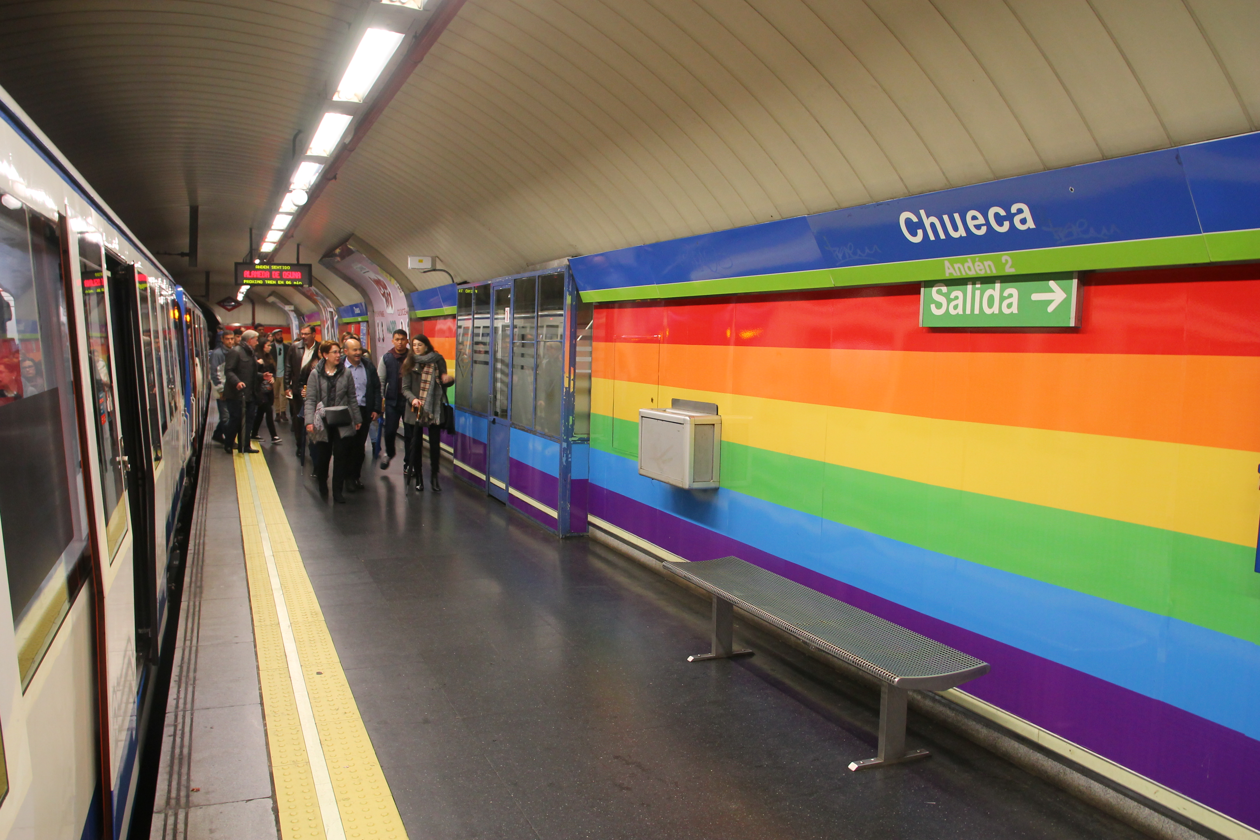 Estación de Chueca